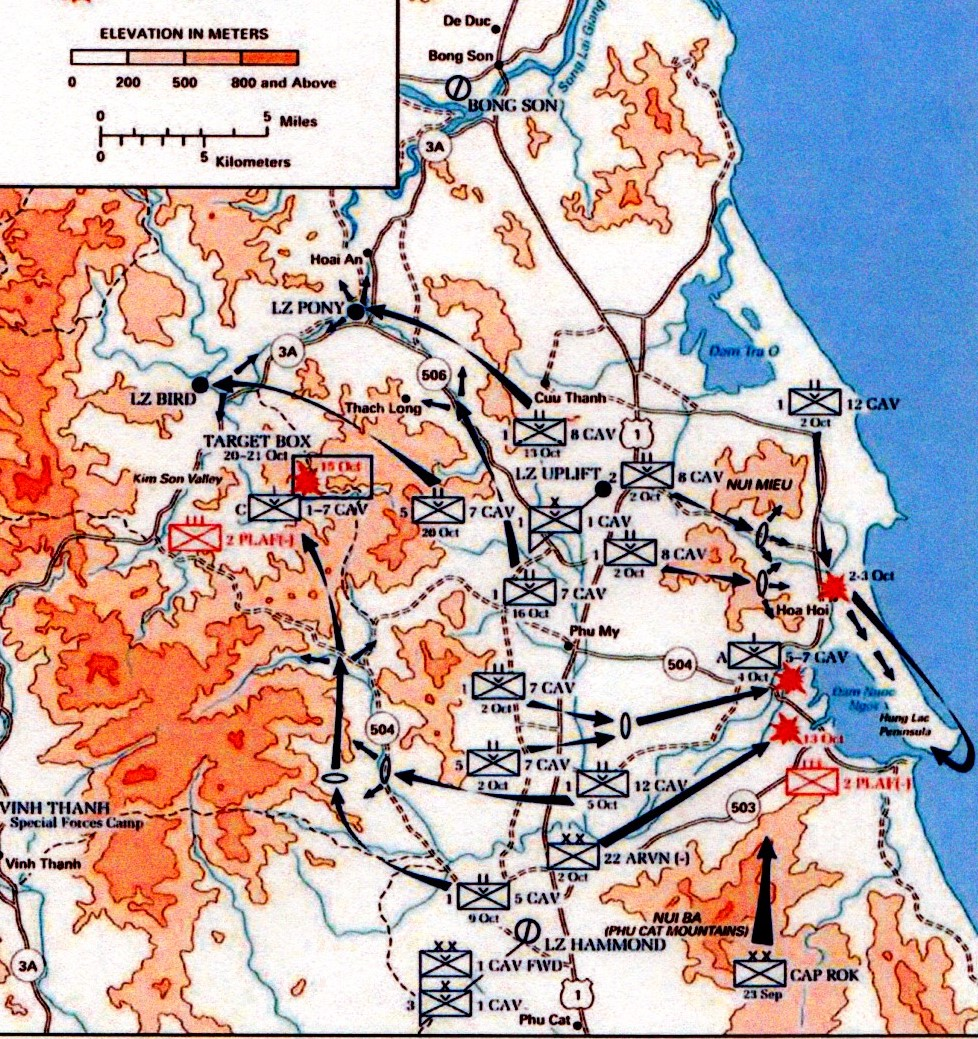 A map of Operation Irving, South Vietnam, October 1966